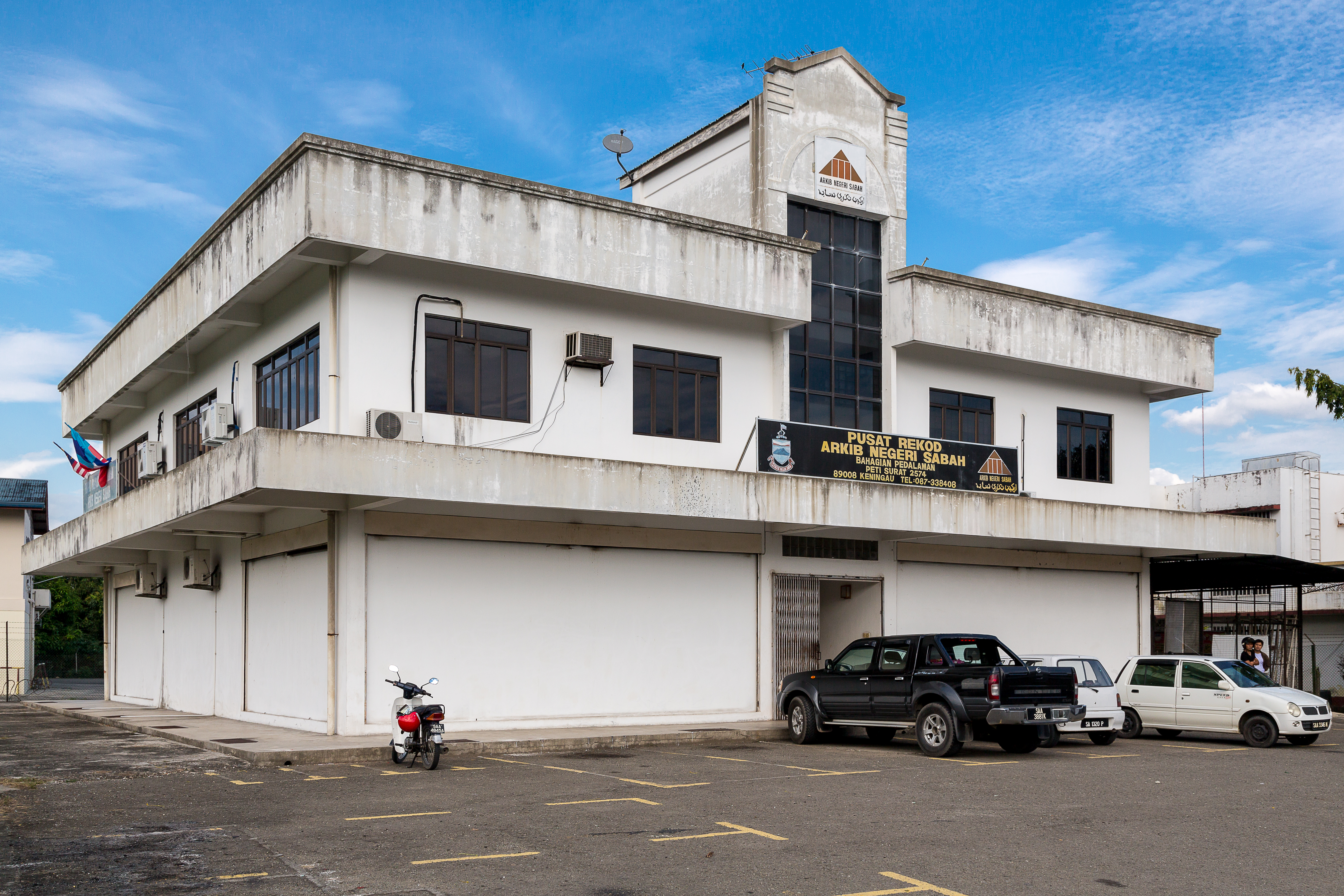 Keningau, Sabah: Keningau Branch of Sabah State Archives